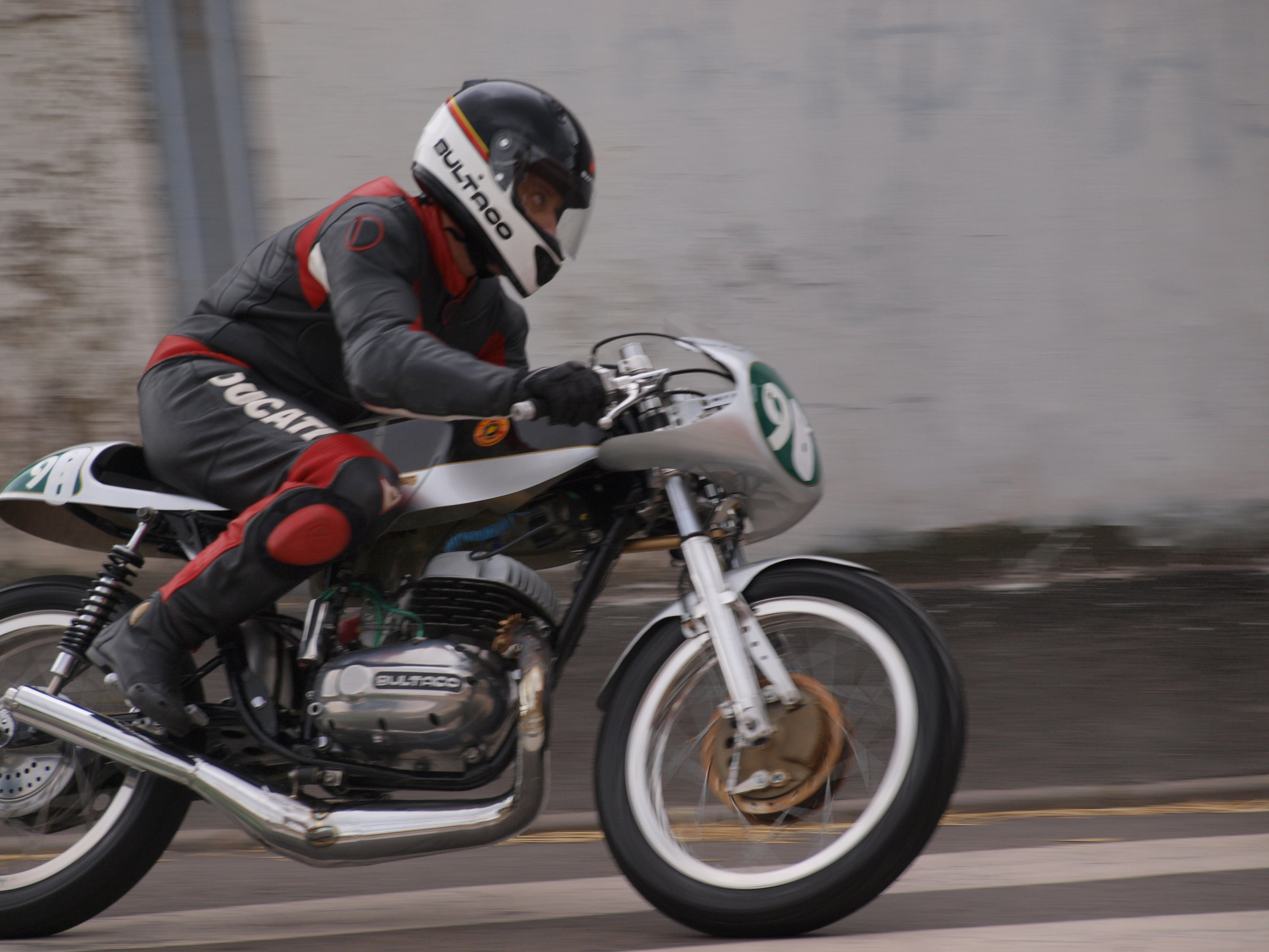 Bultaco racing bike from around 1970 in a classic race in Villa de Avilés, Spain (2010)